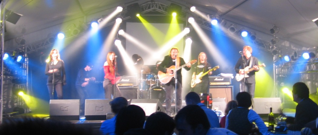 Austrian Rockband Opus in Rauchenwarth, Niederösterreich (Lower Austria), September 2007. It was a private concert, organized by some enterprise for its staff. The band is internationally reknowned for its one-hit-wonder "Life Is Life" (1985).